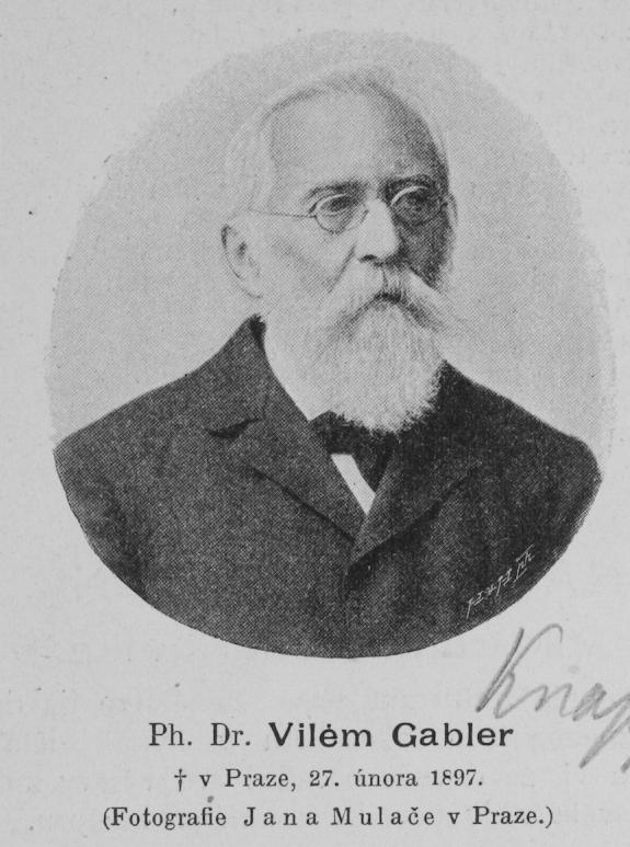 Portrait of Vilém Gabler (1821 - 1897), Czech teacher, private tutor in rich families, long-time director of high school for girls in Prague and author of textbooks and travelogues.